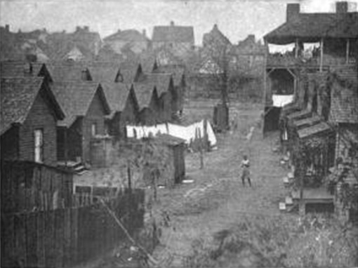 Jackson Row, an African-American slum in Atlanta, 1907